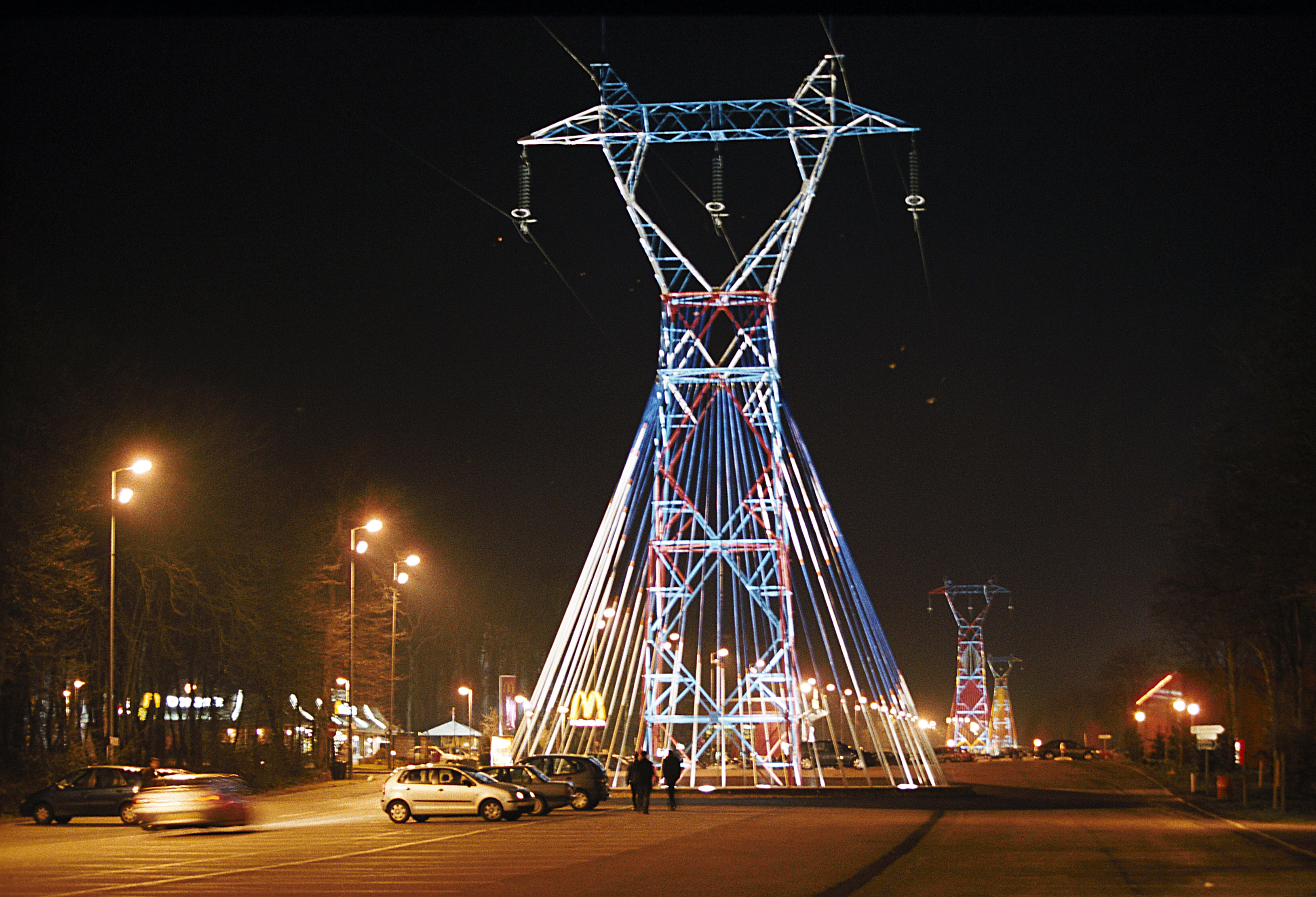 Visual impact of overhead energy networks - "Source" artwork, four electricity towers in Amnéville les Thermes, Artist: Elena Paroucheva, Sponsor and management: RTE, France